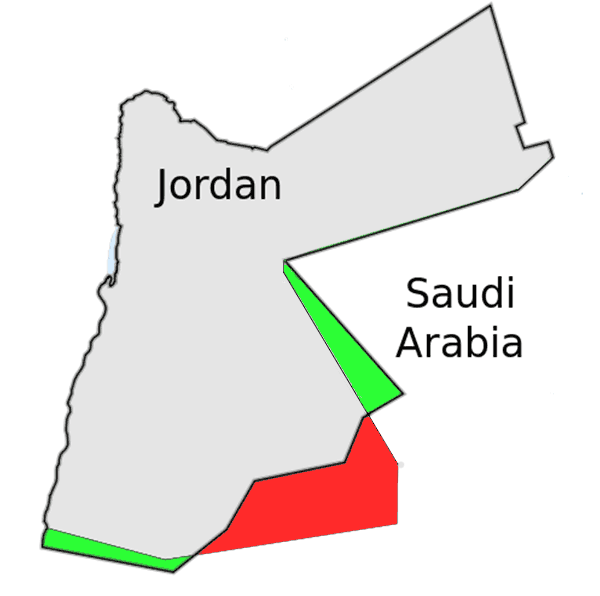 Corrected version of File:Jordan frontiers-en.svg based on original treaties quoted in this report